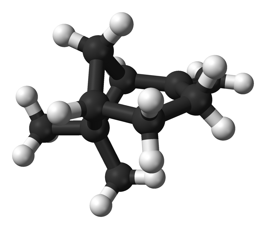 Ball-and-stick model of the (1S)-(−)-β-pinene molecule, C10H16. X-ray crystallographic data from A. D. Bond and J. E. Davies (November 2001). "(1S)-(−)-β-Pinene". Acta Cryst. 'E57' (11): o1041-o1042. Image generated in Accelrys DS Visualizer.